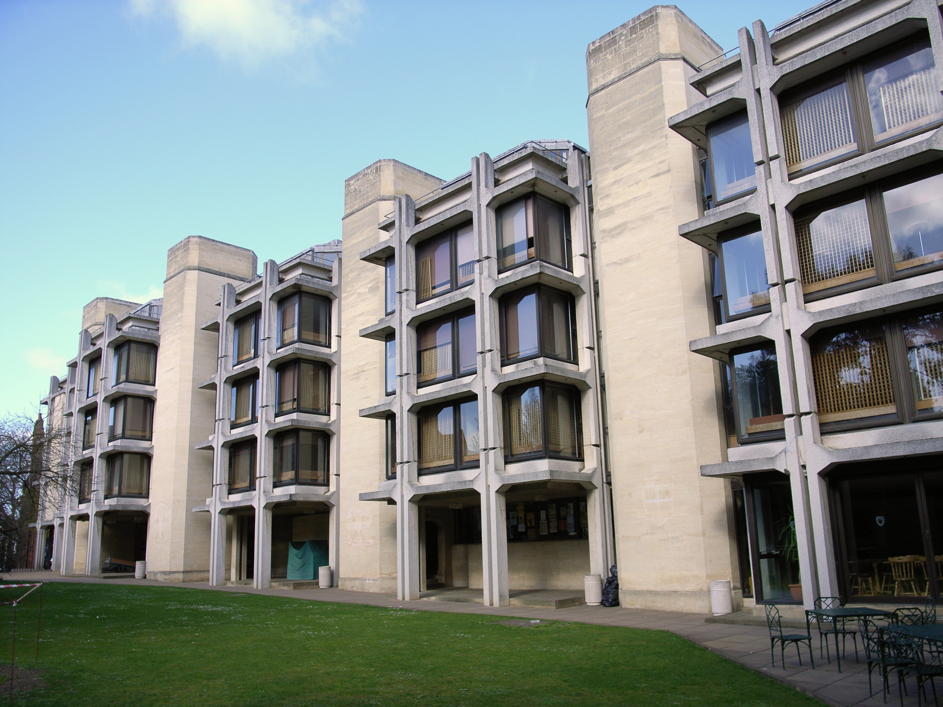 Sir Thomas White Building (1976) by Arup Associates, St John's College Oxford. Photo taken on a tour of post-war buildings in Oxford with the 20th Century Society.